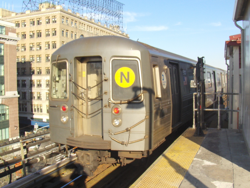 R68a N leaving QBP